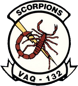 Insignia of the U.S. Navy Tactical Electronic Warfare Squadron 132 (VAQ-132) "Scorpions".